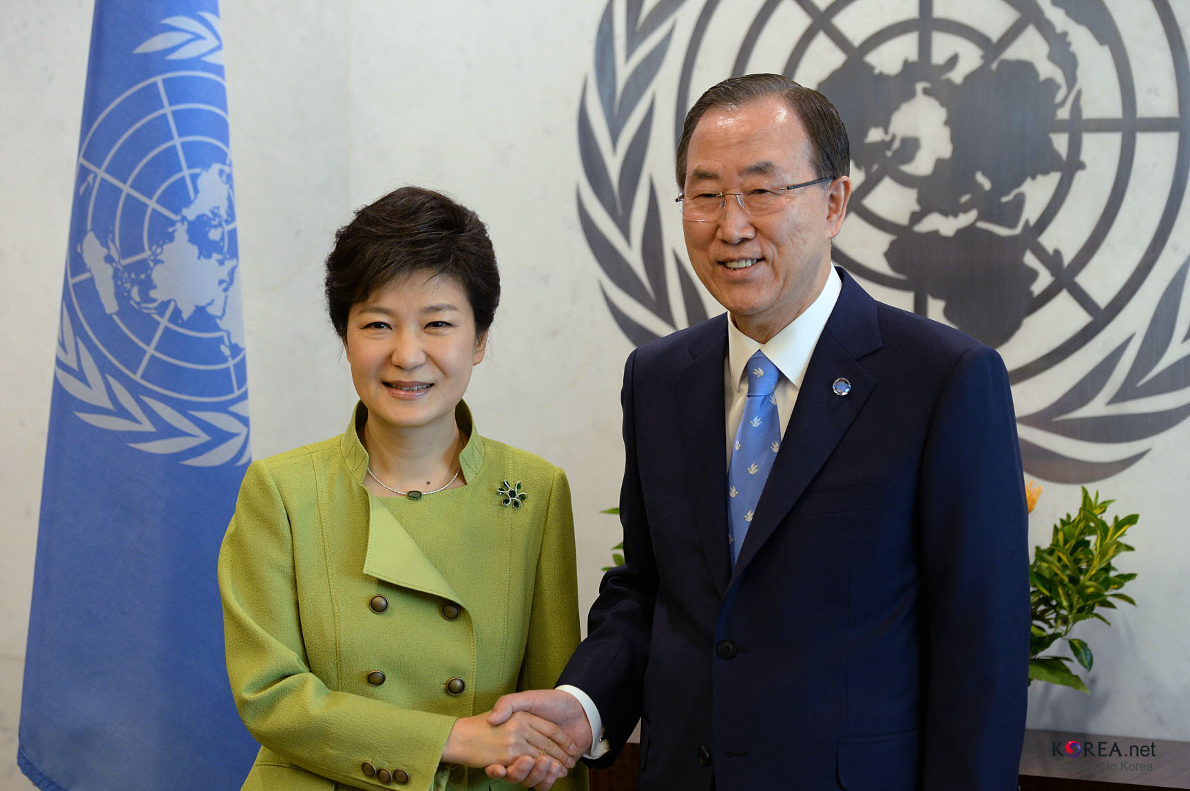 President Park Geun-hye (left) shakes hands with UN Secretary-General Ban Ki-moon at the United Nations headquarters in New York on May 6.